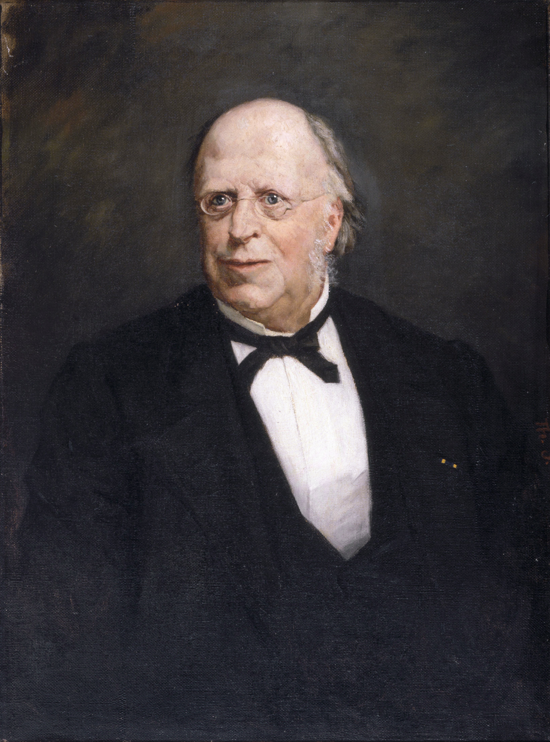 Jeronimo de Bosch Kemper (1808-1876) oil on canvas 76 x 58 cm 1883